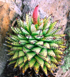 Aloe erinacea. The Hedgehog Aloe of southern Africa.